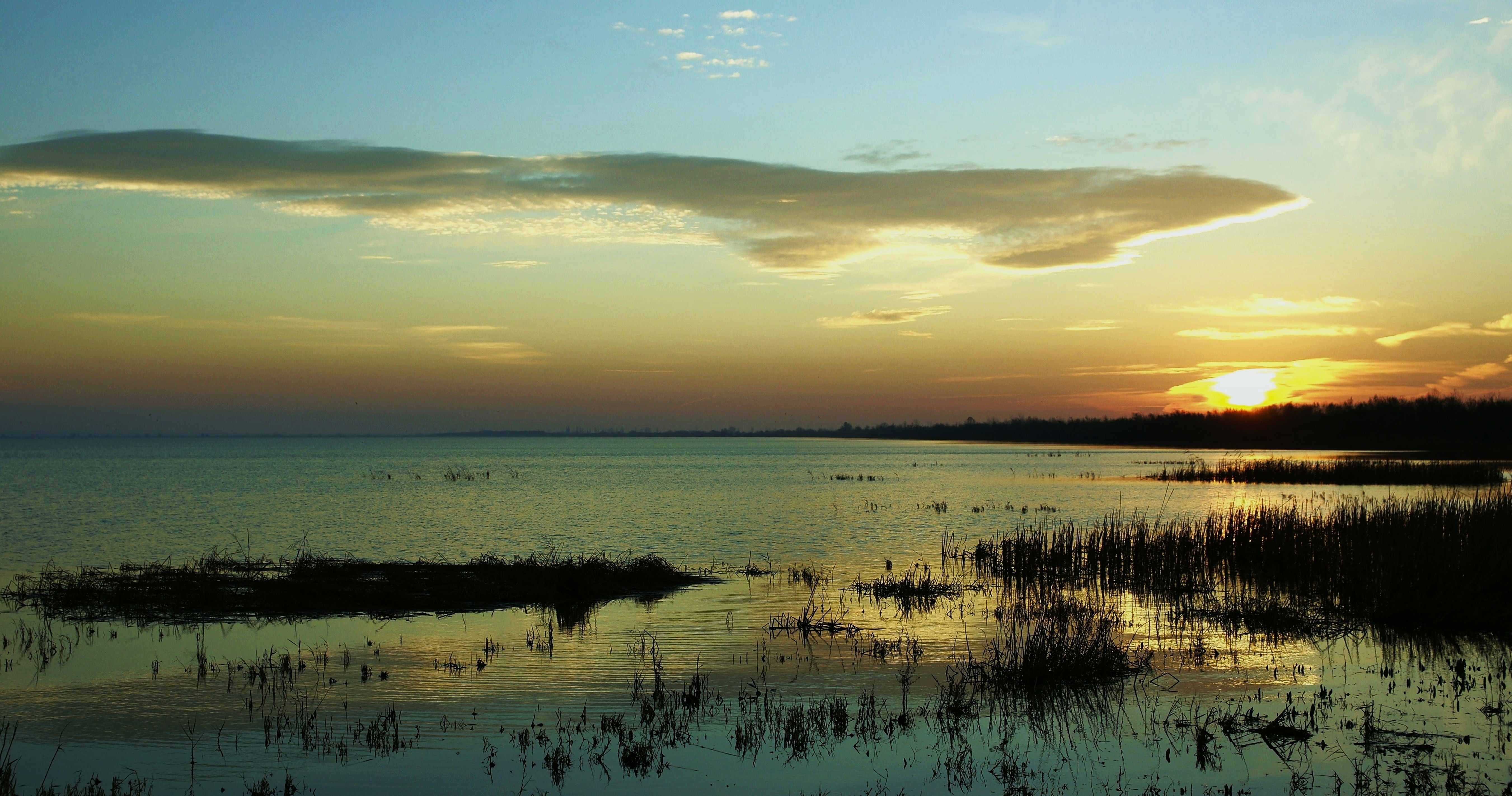 Sunrise on Brates Lake - Rasarit pe Lacul Brates